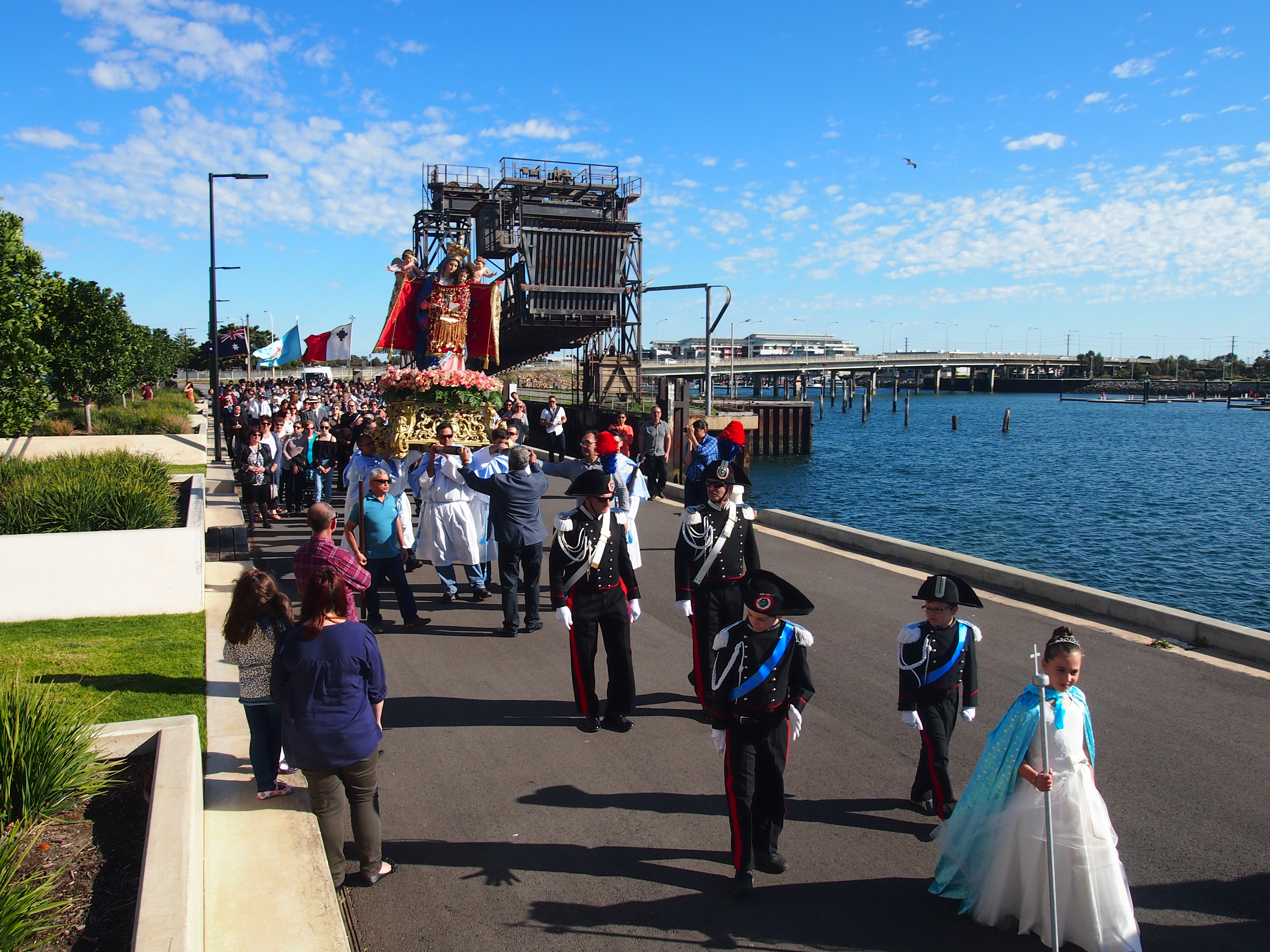 Part of the Blessing of the Fleet procession on the Copper Company wharf, Port Adelaide, 20 September 2015. Original filename = P9206832.JPG